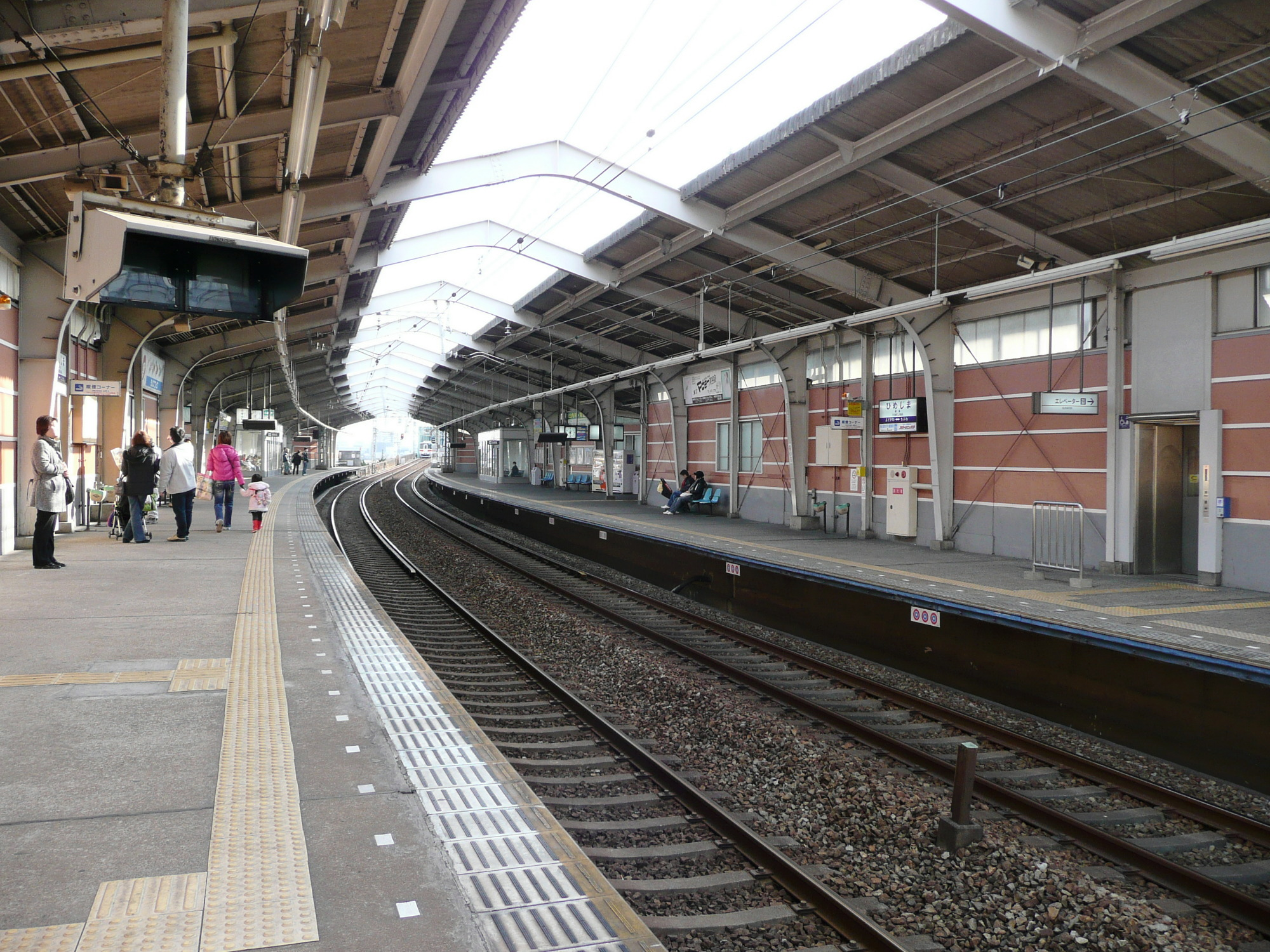 Hanshin Electric Railway,Main Line,Himejima Station platform. /阪神本線姫島駅ホーム